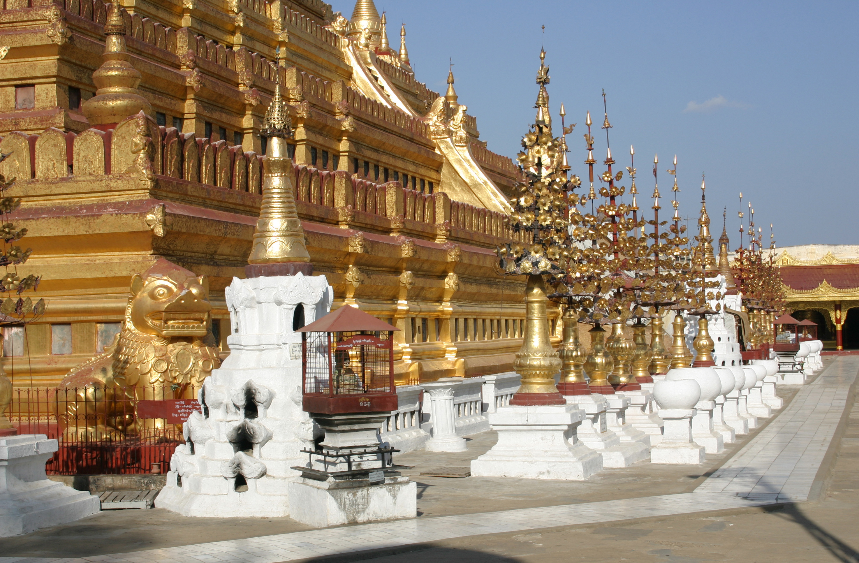 Shwezigon pagoda, Bagan, Myanmar.